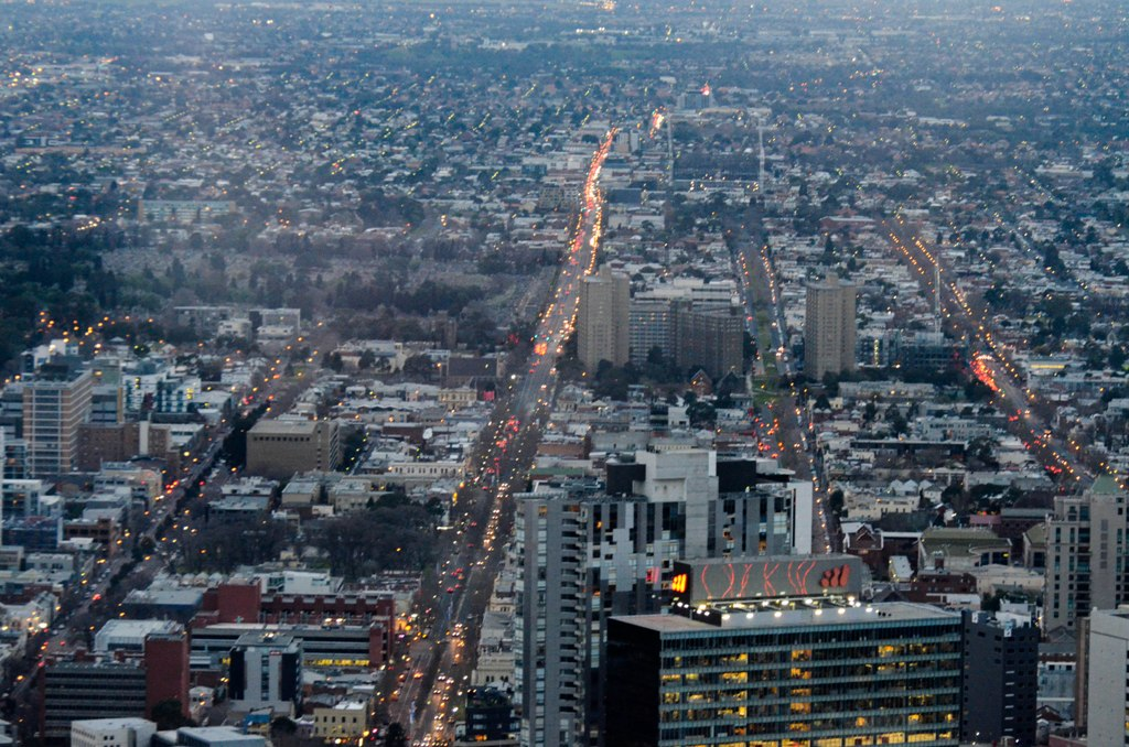 Northern Suburbs, Melbourne